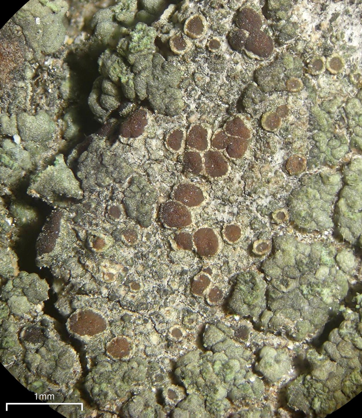 The lichen Lecanora saligna, at 30X magnification. Specimen photographed in Bear Canyon, San Gabriel Mountains, Los Angeles Co., California, USA.